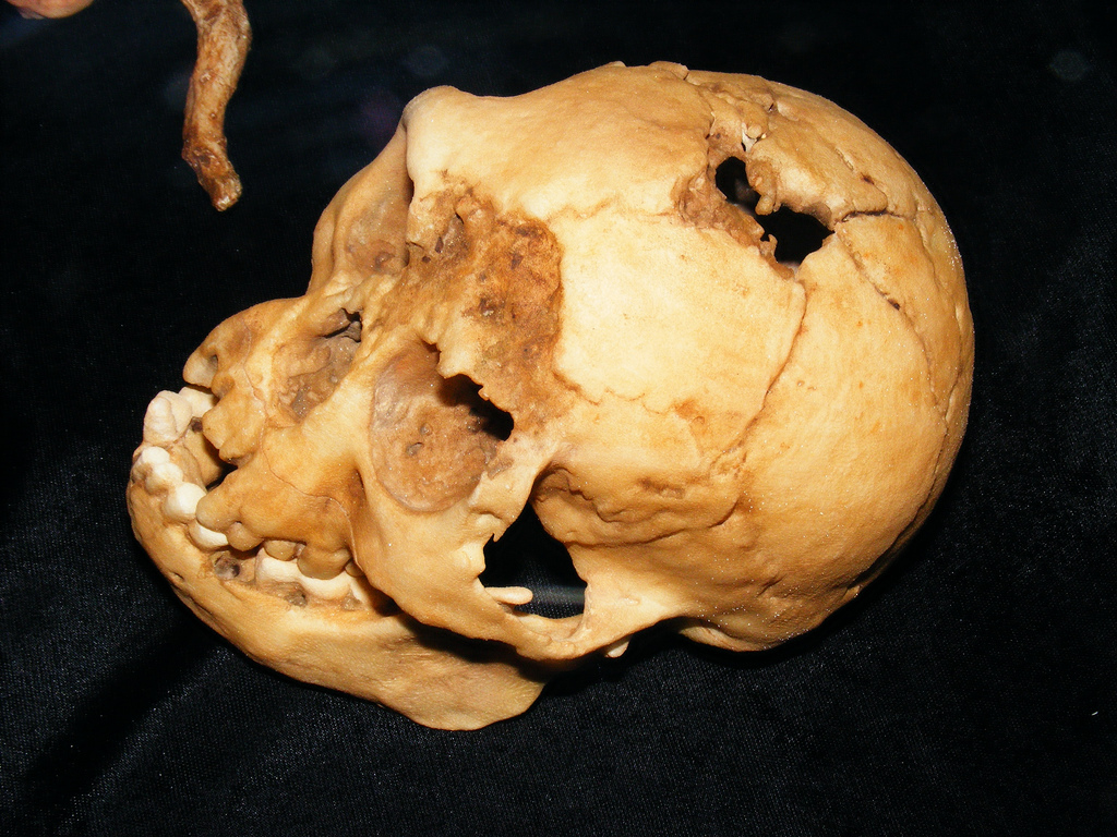 7th Human Evolution Symposium: Hobbit in the Haystack